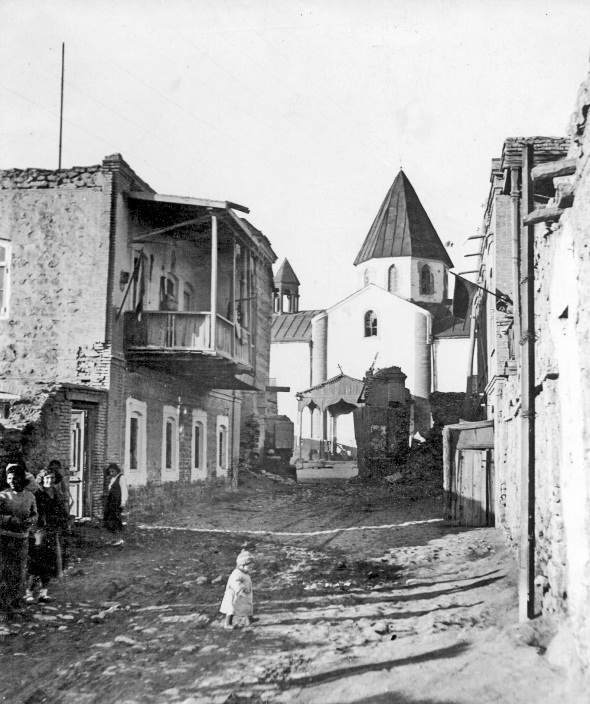 church in Kond